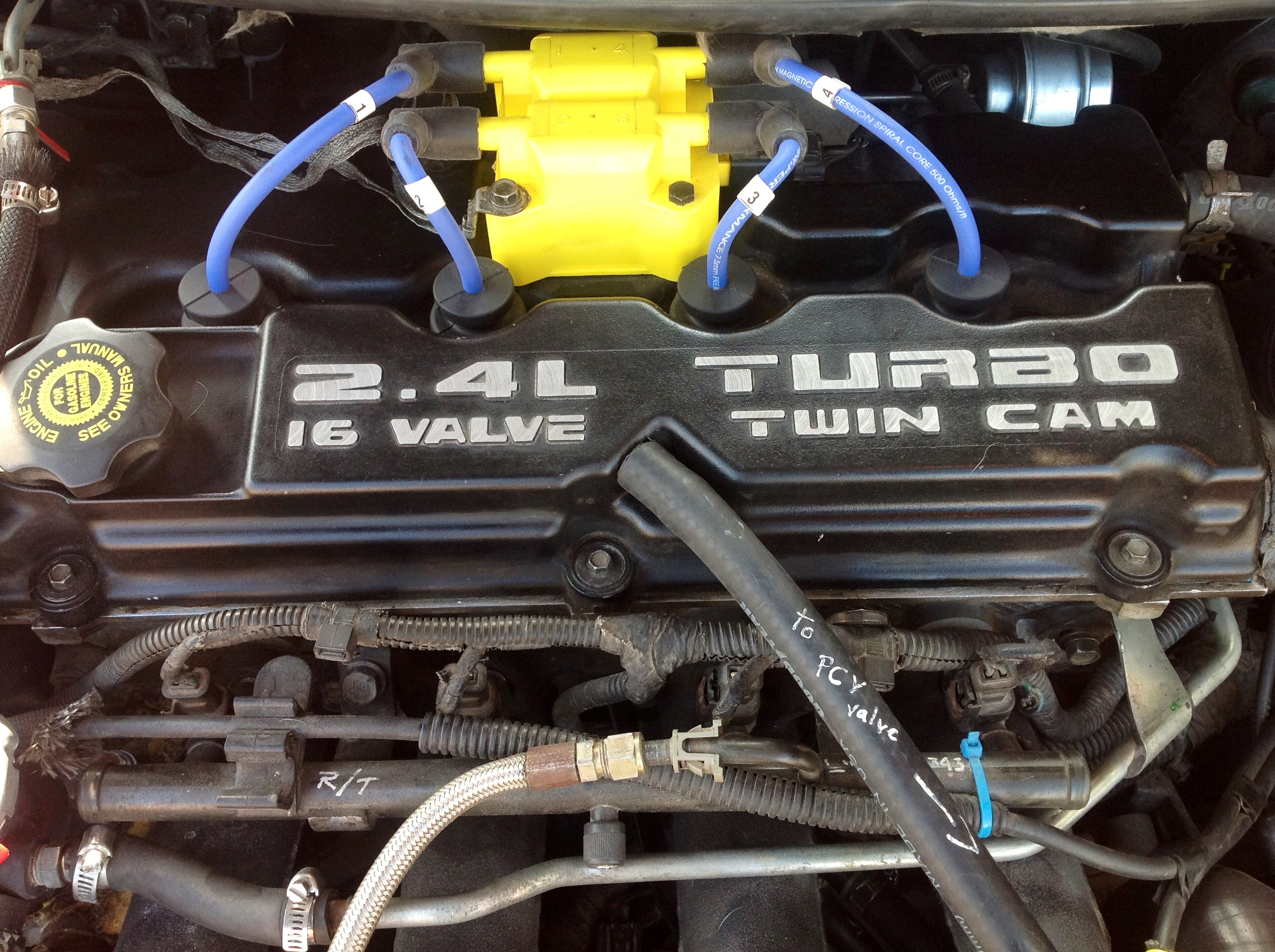 Motor EDZ 2.4L Turbo de Chrysler (1996-2000)